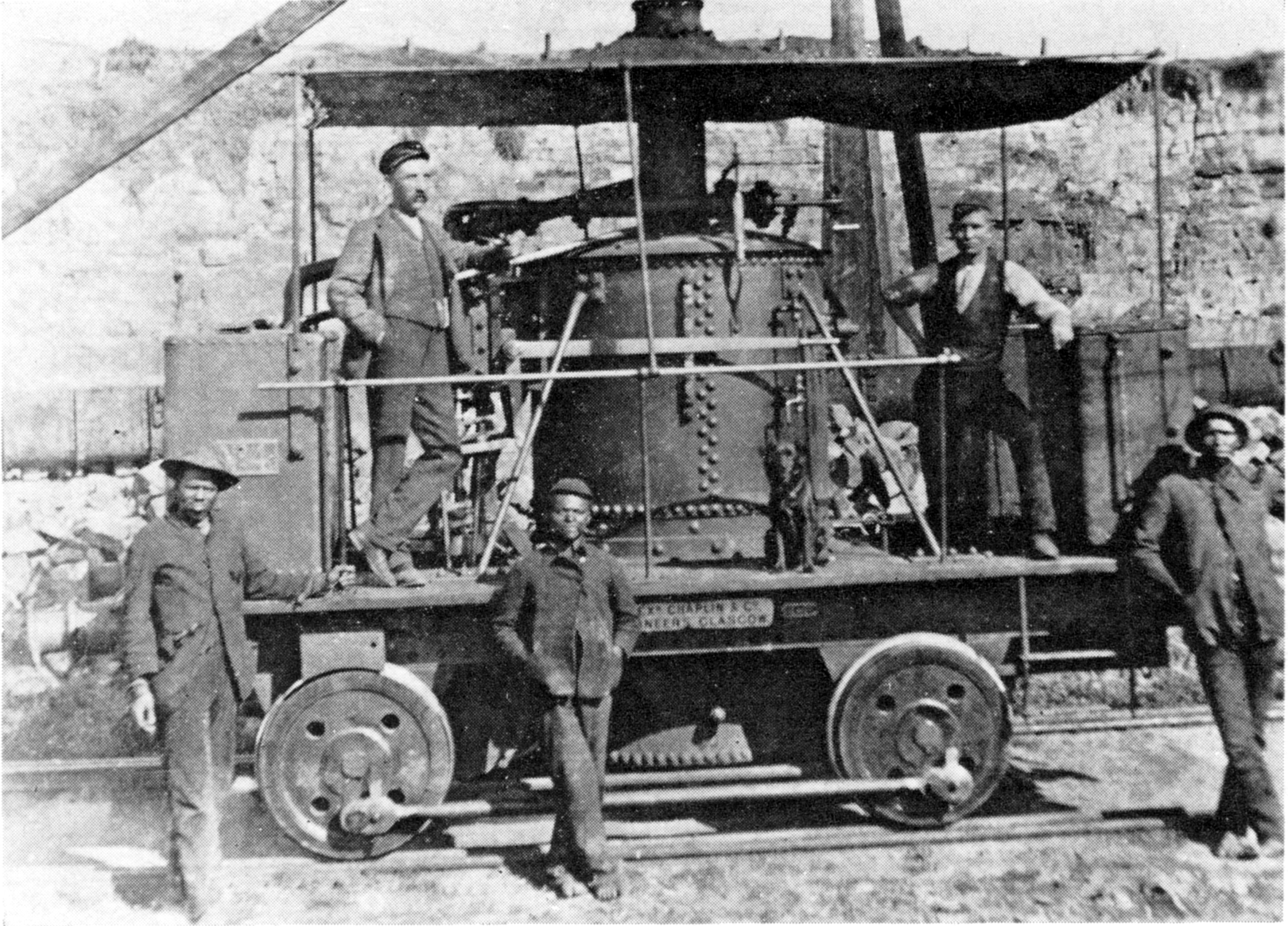 East London Harbour Board's 7 ft ¼ in gauge construction locomotive, 0-4-0 vertical boiler type no. 4